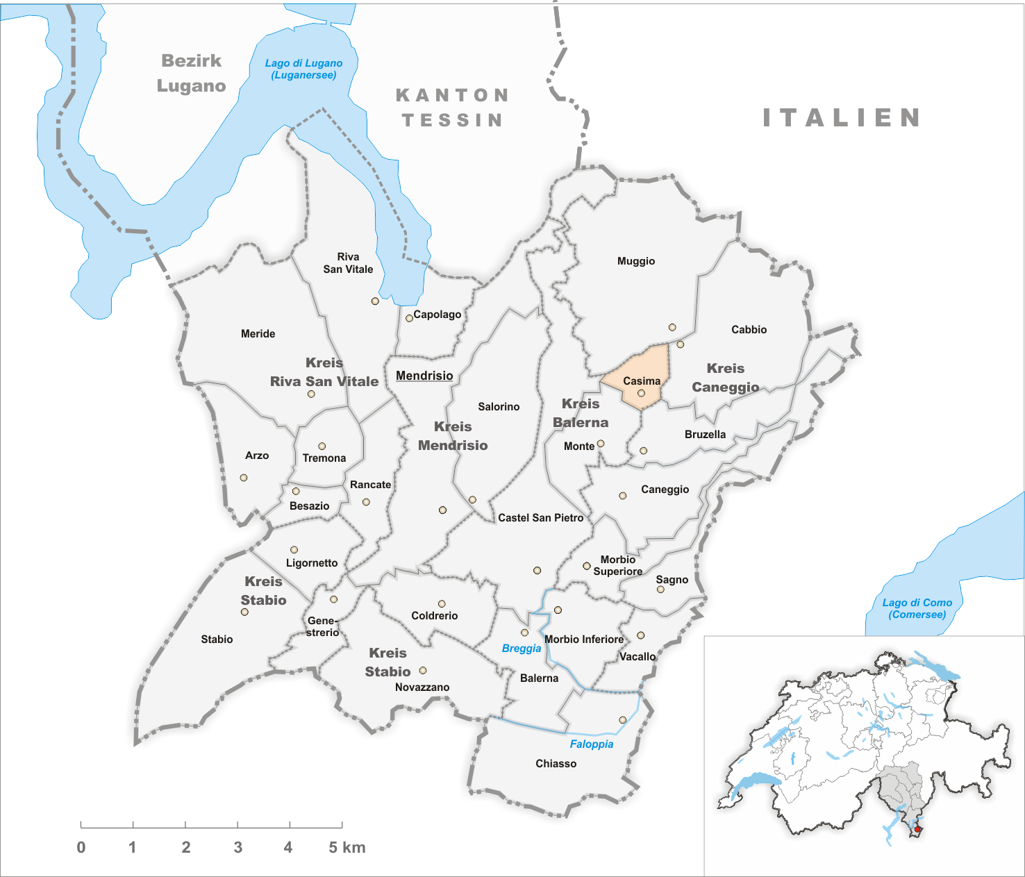 Municipality Casima Artist: Tschubby